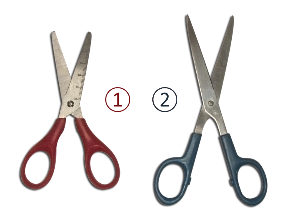 Left-handed scissors Right-handed scissors